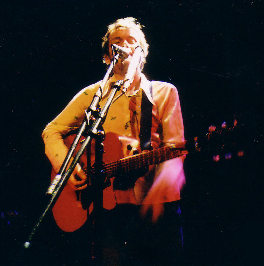 Damien Rice at The Troubadour